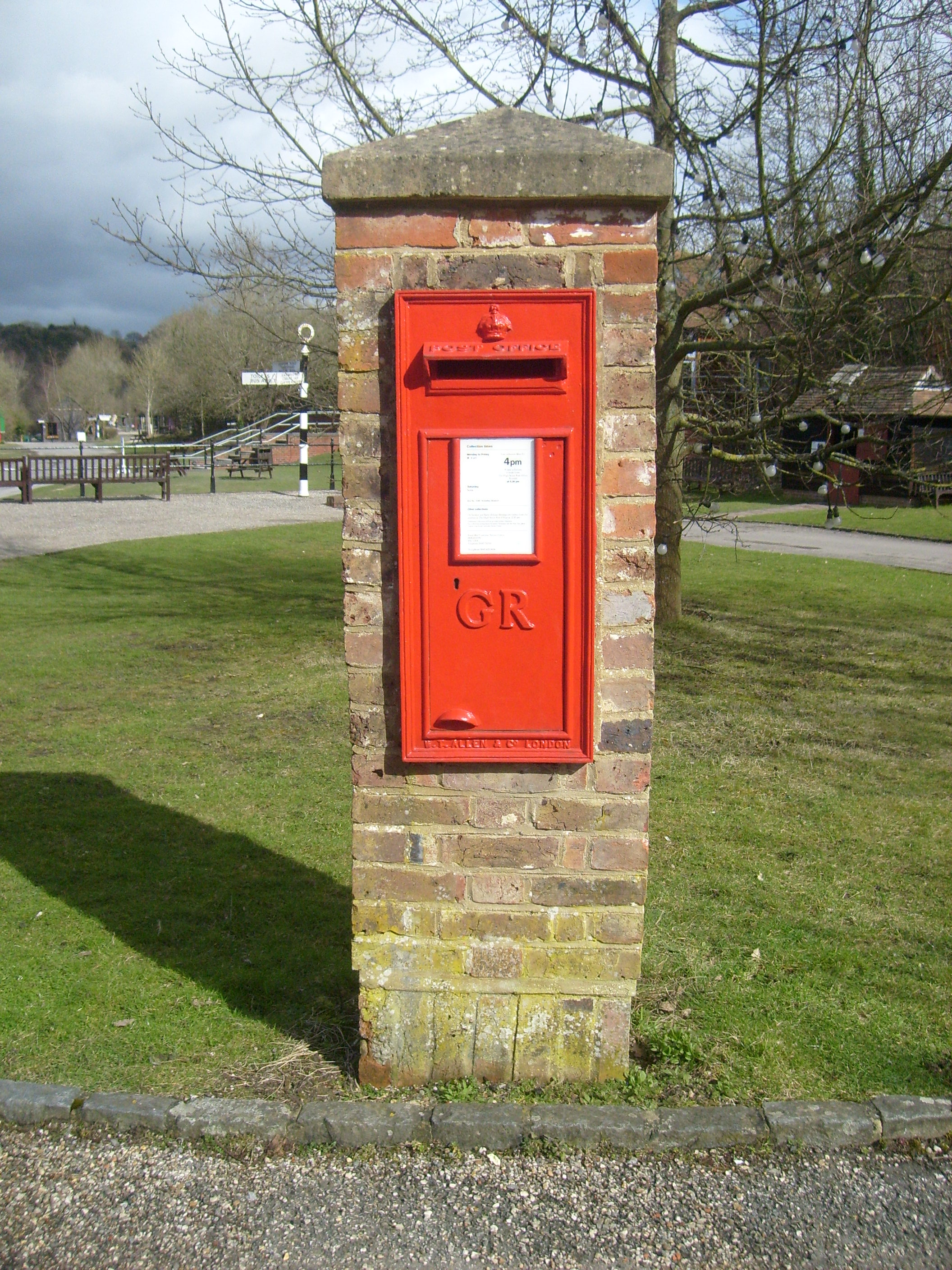 A George V Wall Box at the Amberley Working Museum.